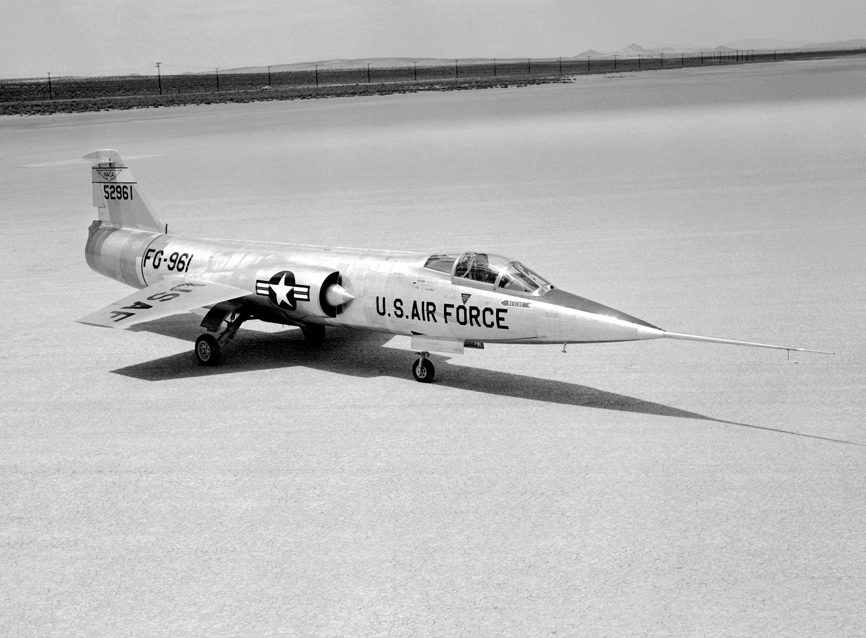 YF-104A Starfighter (Serial #55-2961) on Rogers Dry Lake at Edwards AFB, USA.